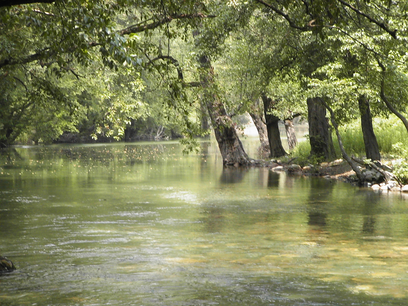 Dim Çayı, a brook running along the boundaries of the Alanya district of Antalya